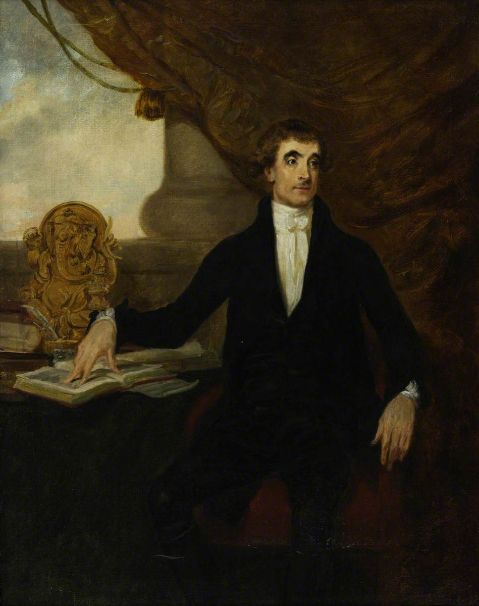 William Jones seated at a table with a statuette of Ganesha and a column and draperies in the background